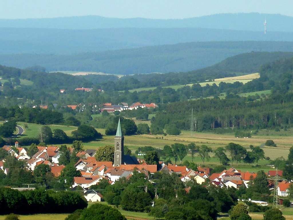 View of Crainfeld, Bannerod and Heisters from the Hoellerich near Bermuthshain (Hesse, Germany). Right in the background the Hummelskopf telecommunications tower near Fulda, seen from a distance of 30 km.